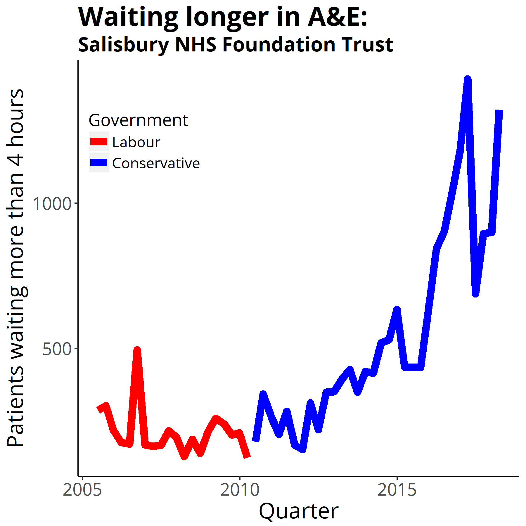 Four-hour target in the emergency department quarterly figures from NHS England Data from